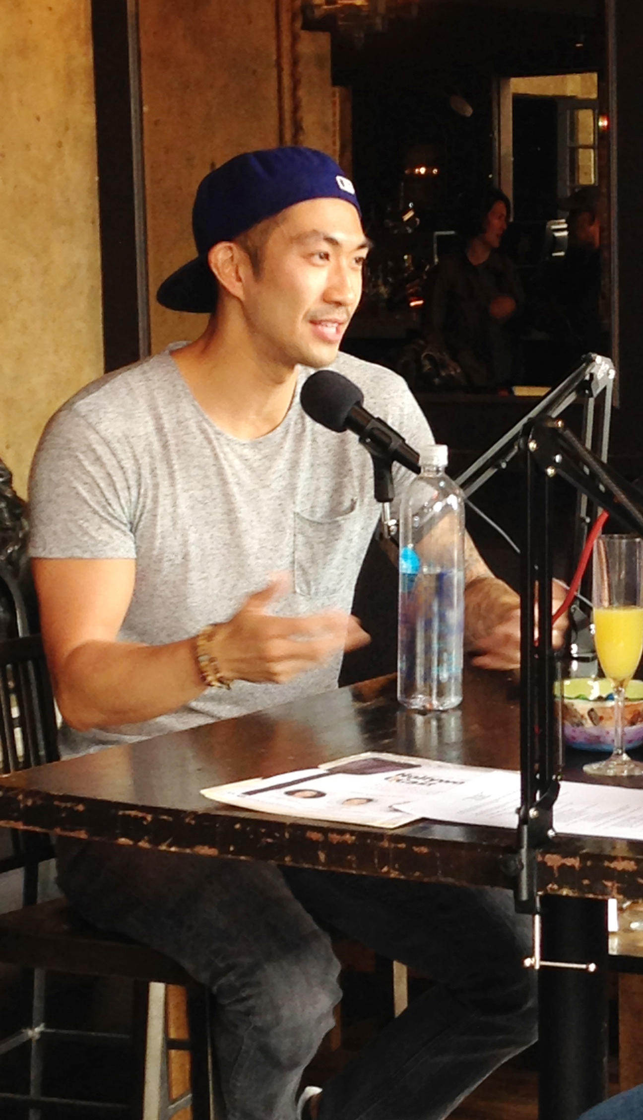 Chef Ronnie Woo being interviewed by Hollywood QCast